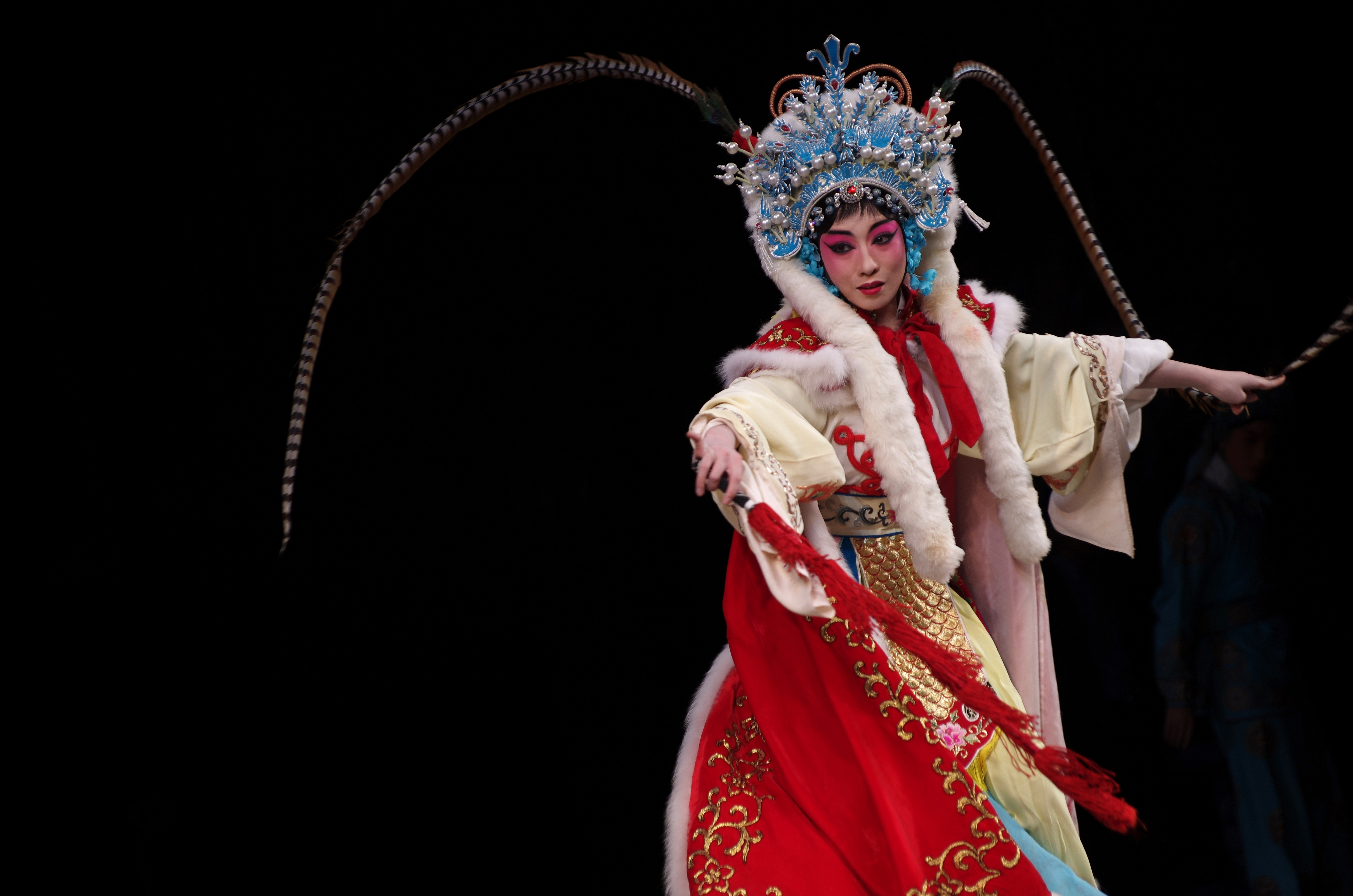 A Peking opera performance in Tianchan Theatre by Shanghai Jingju Theatre Company. Actress Wang Weijia (王维佳) stars as Wang Zhaojun.